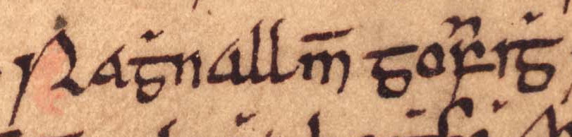 An excerpt from folio 35r of Oxford Bodleian Library MS Rawlinson B 489 (the Annals of Ulster). The excerpt refers to Ragnall mac Gofraid, King of the Isles (died 1004/1005).